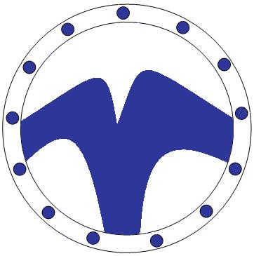 Watcher's symbol in Highlander's series universe